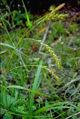 Carex sylvatica Coutances - Manche, France Author : A. Roche Source : [1]